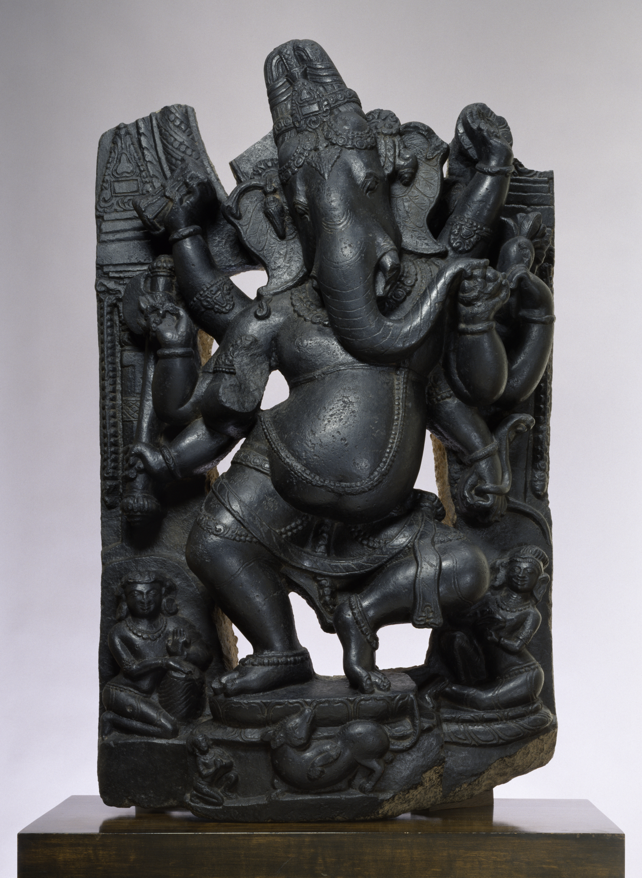 Ganesha, a son of the supreme god Shiva, is the Hindu god worshiped at the start of an endeavor. According to Hindu mythology, the universe is periodically destroyed when Shiva dances. His son Ganesha is a dancer, too, and, like his father, he holds a drum. At the same time, Ganesha, with his potbelly and his desire for sweets, has a character different from Shiva's. Ganesha was originally created by his mother Parvati while his father was absent; when Shiva returned, he decapitated Ganesha. After Parvati demanded that Shiva replace the child's head, servants came back with the head of an elephant.